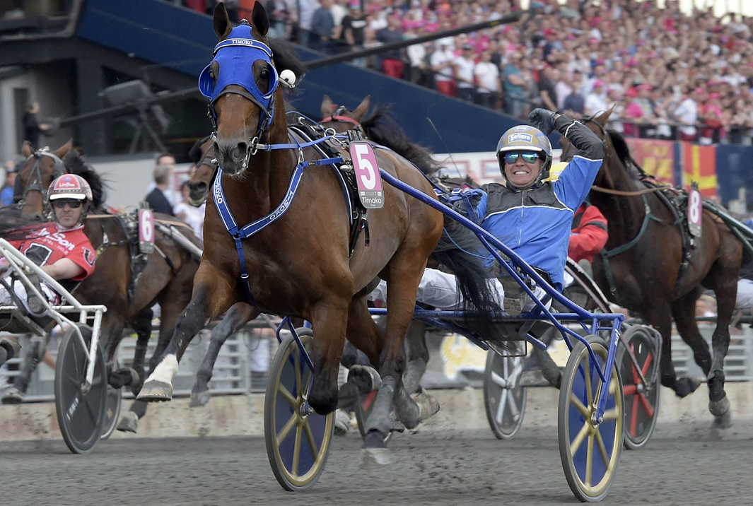 Timoko and driver Björn Goop wins Elitloppet at Solvalla in May 2017.